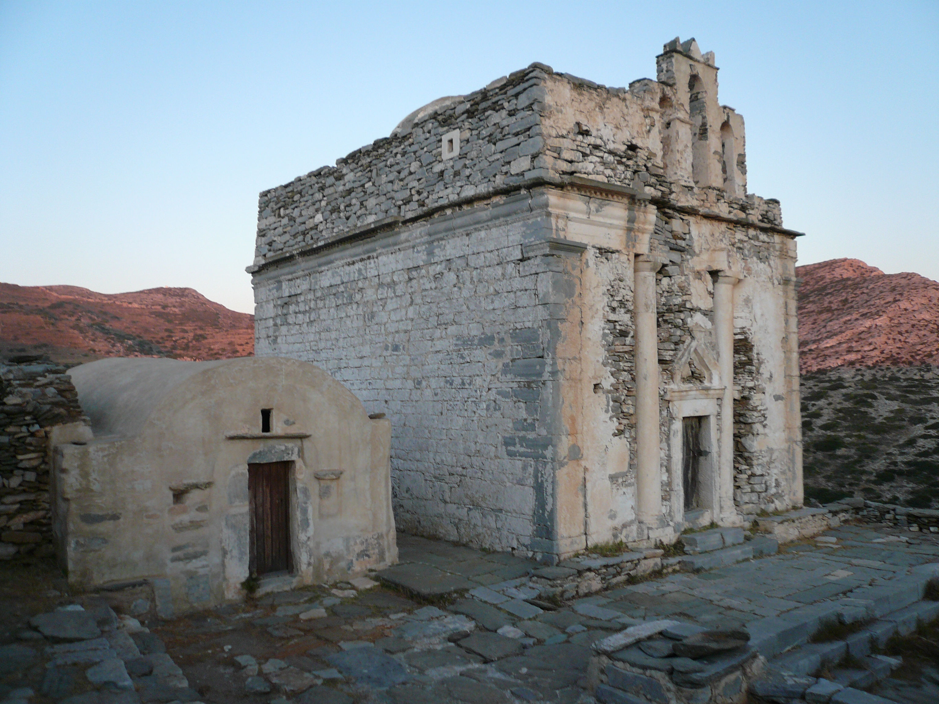 Sikinos Monastery of Episkopi - Complex«Ναός Επισκοπής Σικίνου»